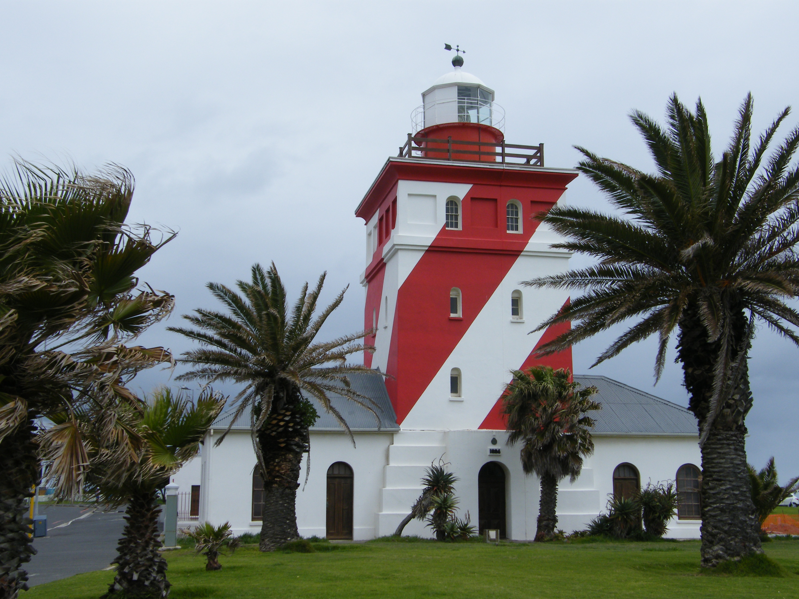 Green Point Lighthouse